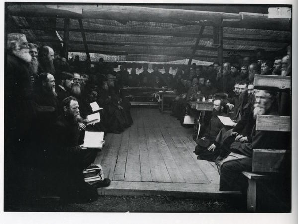 Old Believers' convention in Nizhny Novgorod